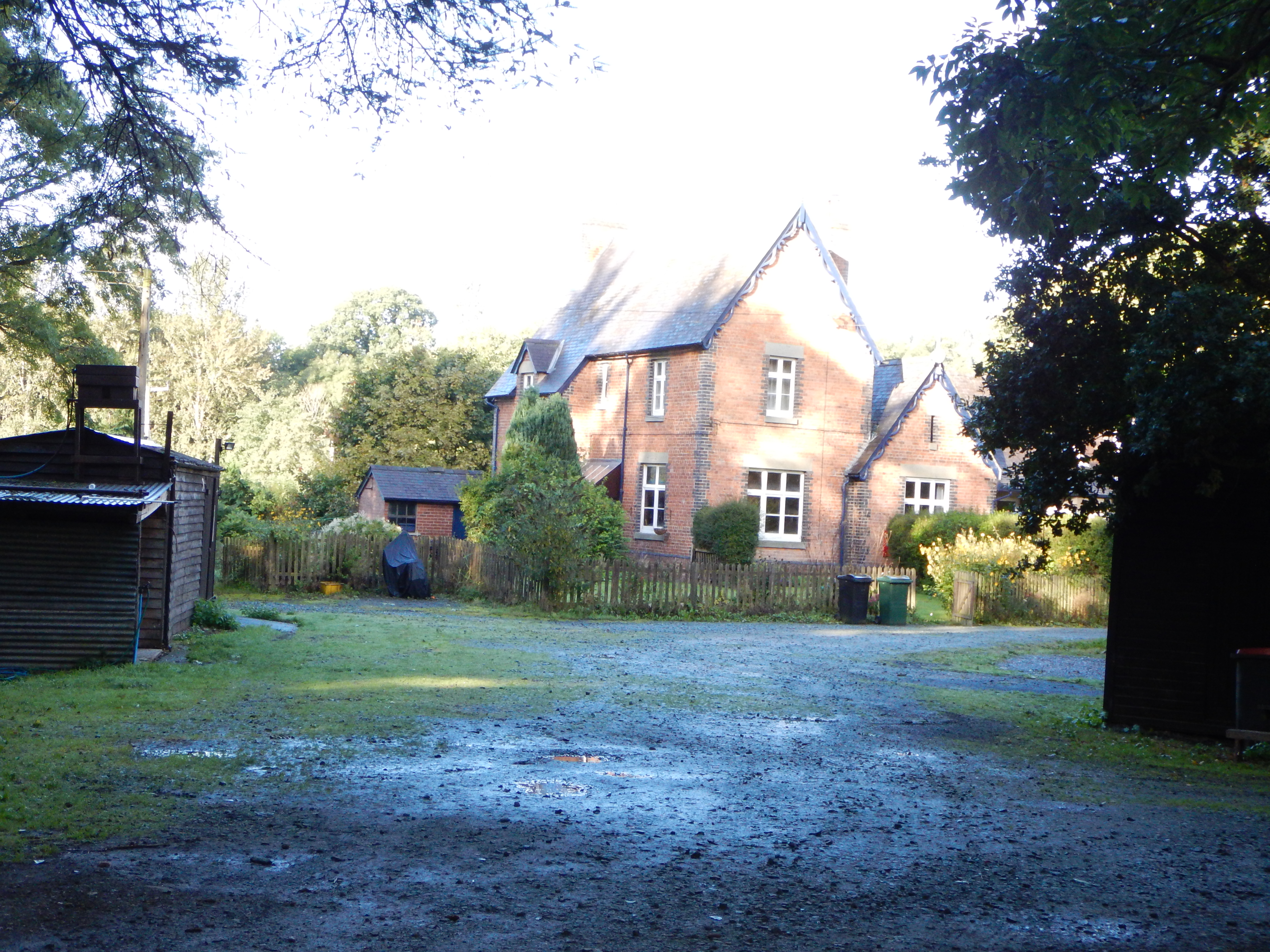 Photograph of the former railway station, Plowden, Shropshire, England